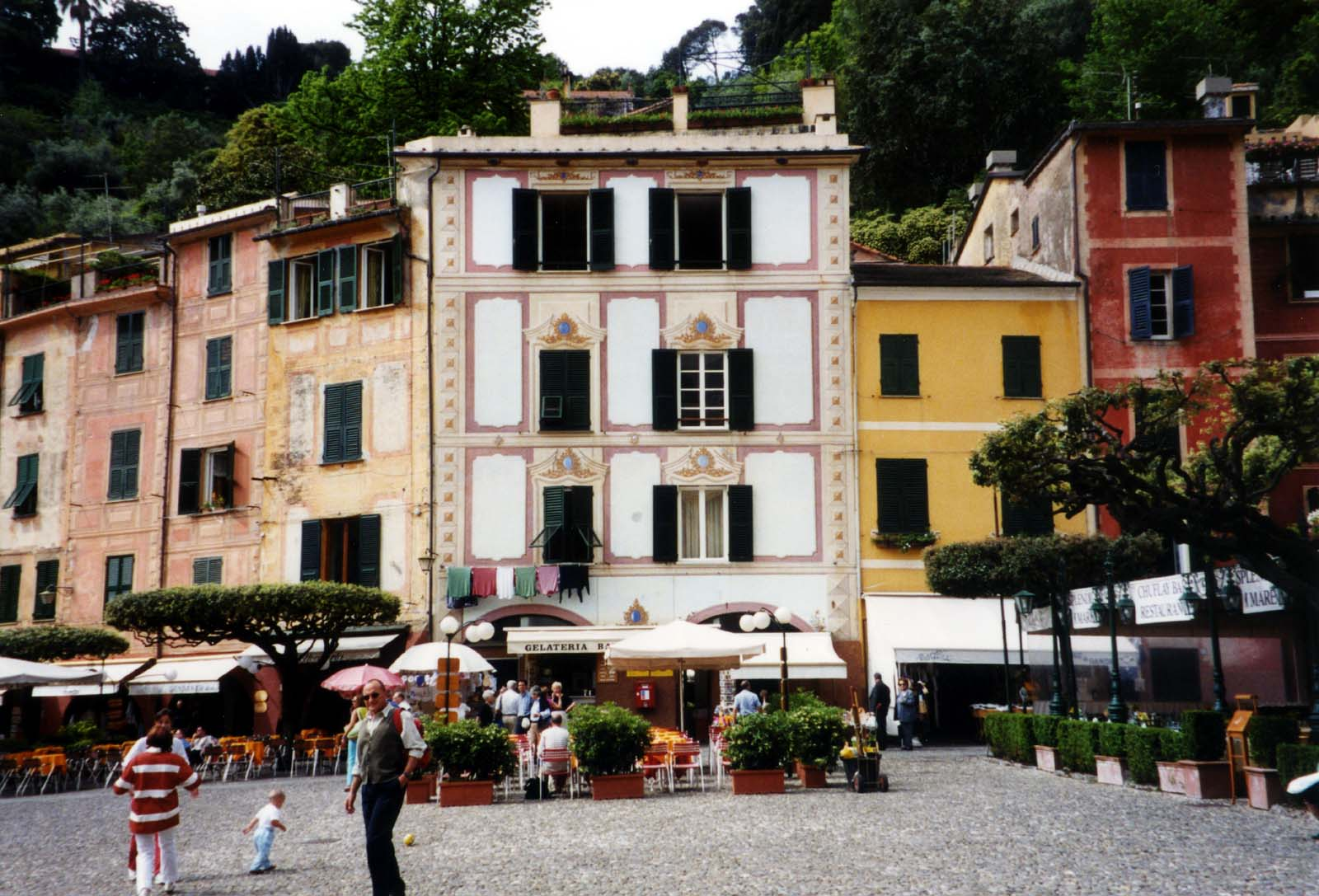 Portofino piazza